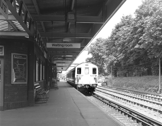 Brockenhurst station, Hampshire A quiet afternoon at Brockenhurst, and 2-HAP unit No 6002 waits with the branch line train to Lymington, where passengers can connect with the ferry to Yarmouth on the Isle of Wight. This was the scene in 1973, but now in 2007 the branch is worked with two 4-CIG units, which are regarded as 'heritage' units as they have slam doors.